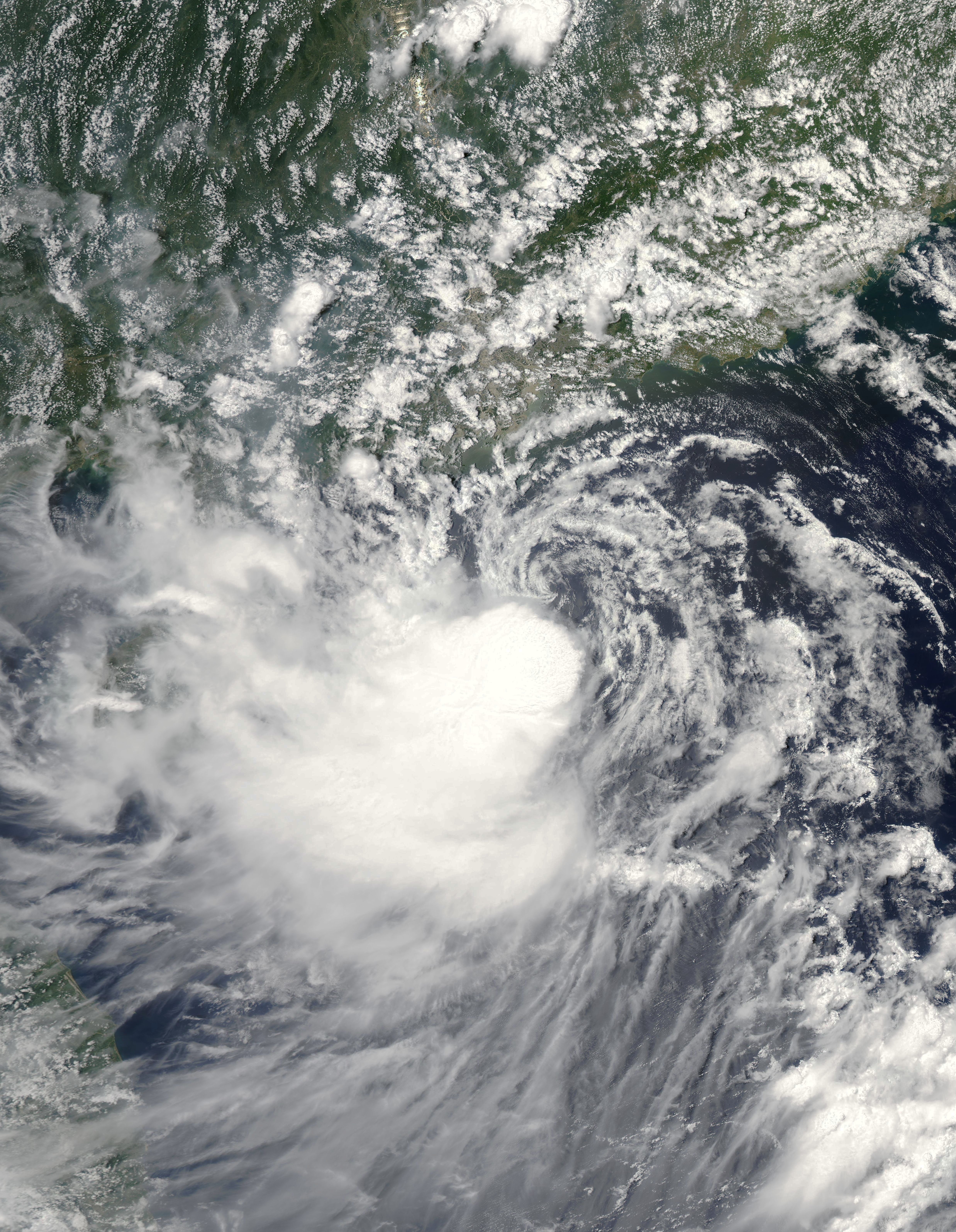 Tropical Storm Soudelor, at peak intensity on July 11 2009, at 05:44(UTC), being sheared by wind shear from the north east, exposing the low level circulation center.